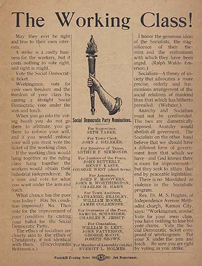 Published in USA prior to 1923. Campaign leaflet from 1900 campaign from Peekskill, NY. Not originally copyrighted, image not subject to copyright.